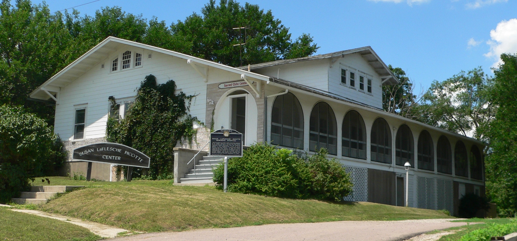 Dr. Susan LaFlesche Picotte Memorial Hospital in Walthill, Nebraska; seen from the southeast. The building was constructed in 1912-13. It is listed as a National Historic Landmark.